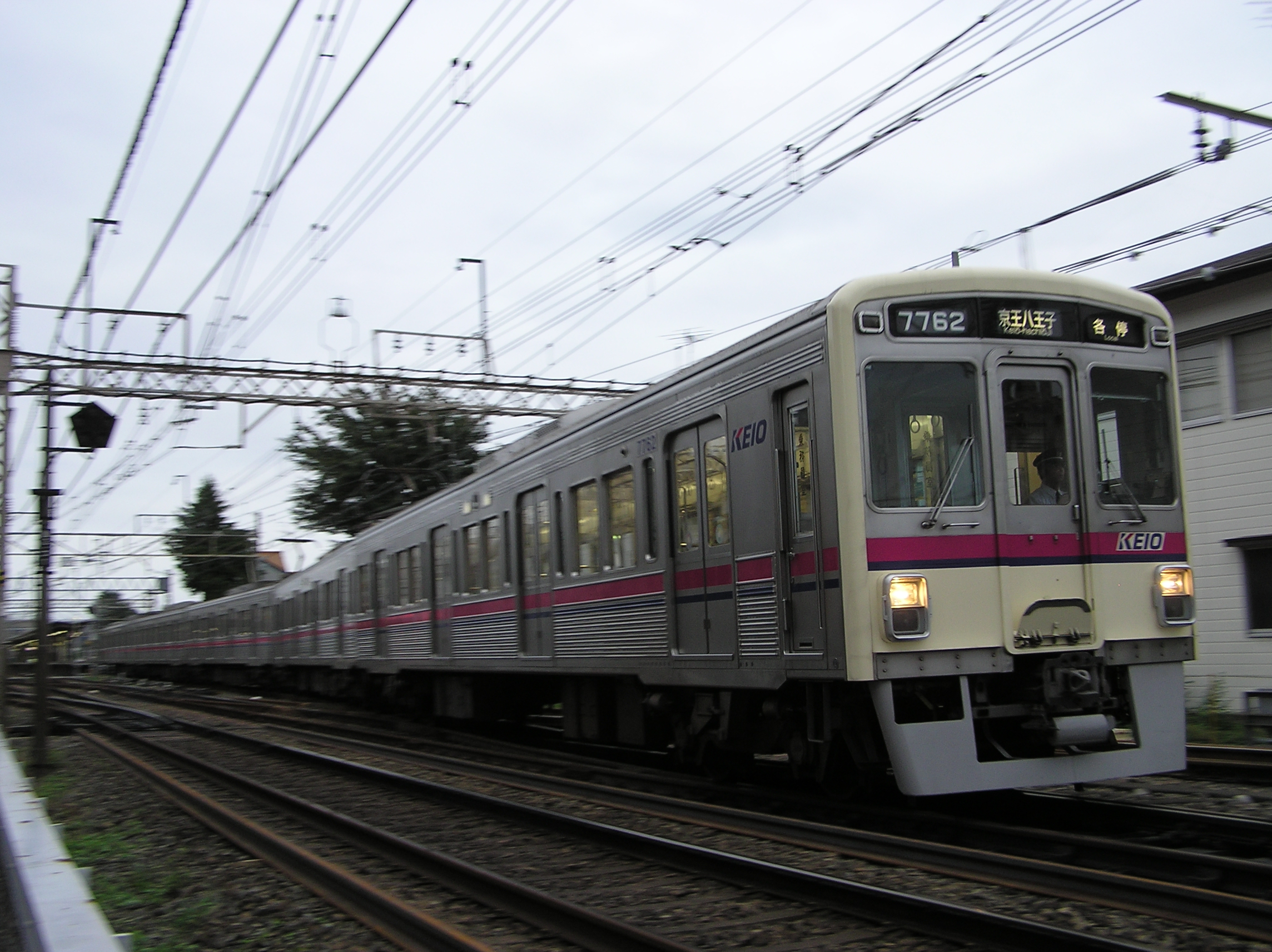 撮影地 Place of photoつつじヶ丘～柴崎撮影の状況 How to take公道から撮影 At public roadトリミングの有無 Cropped or not非トリミング Not Cropped内容 Description副本線から発車し本線に転線中の京王7000系7712F Keiō 7000 series